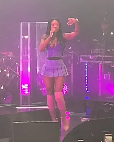 Summer Walker performing in Toronto, November 2019